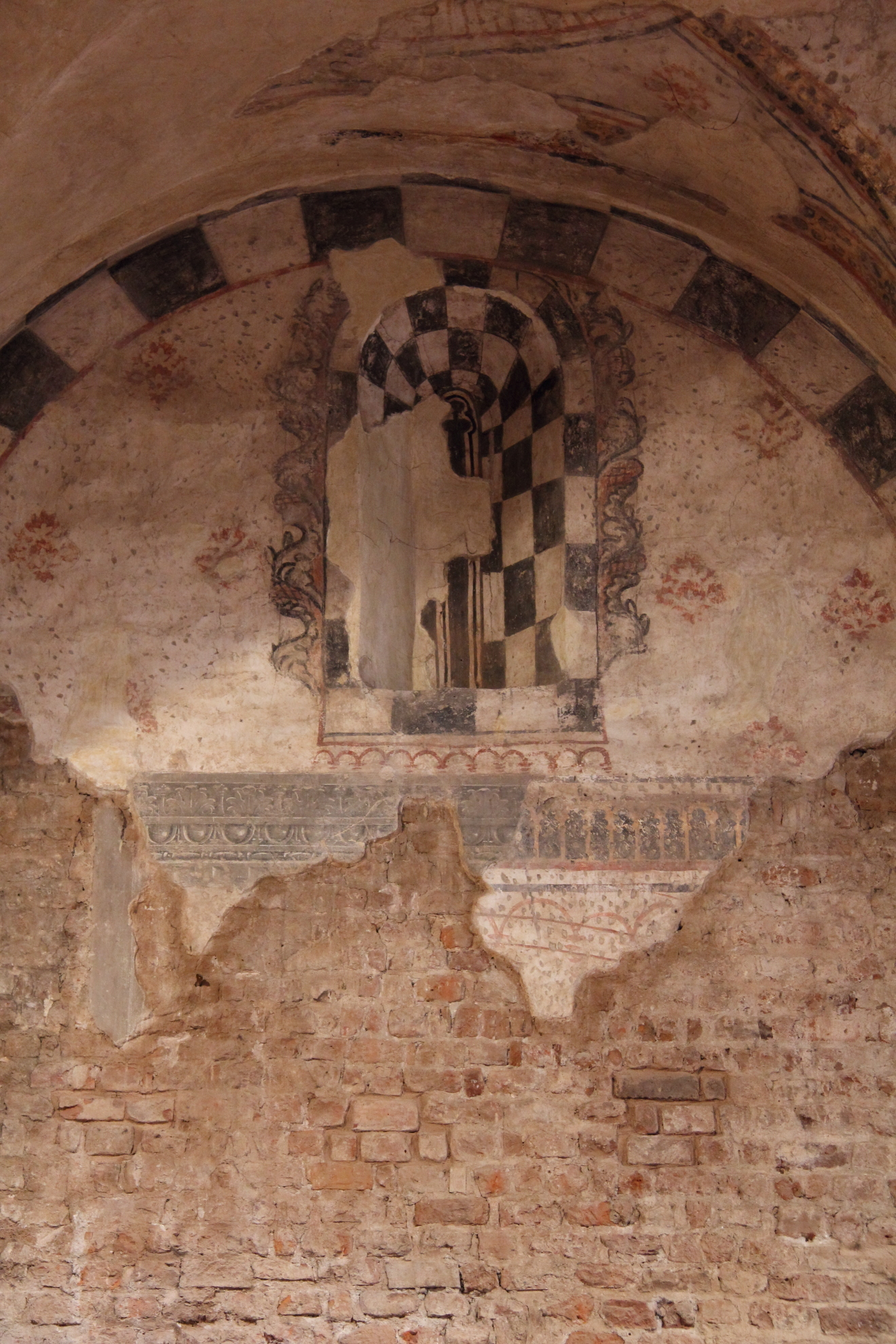 This is a photo of a monument which is part of cultural heritage of Italy.